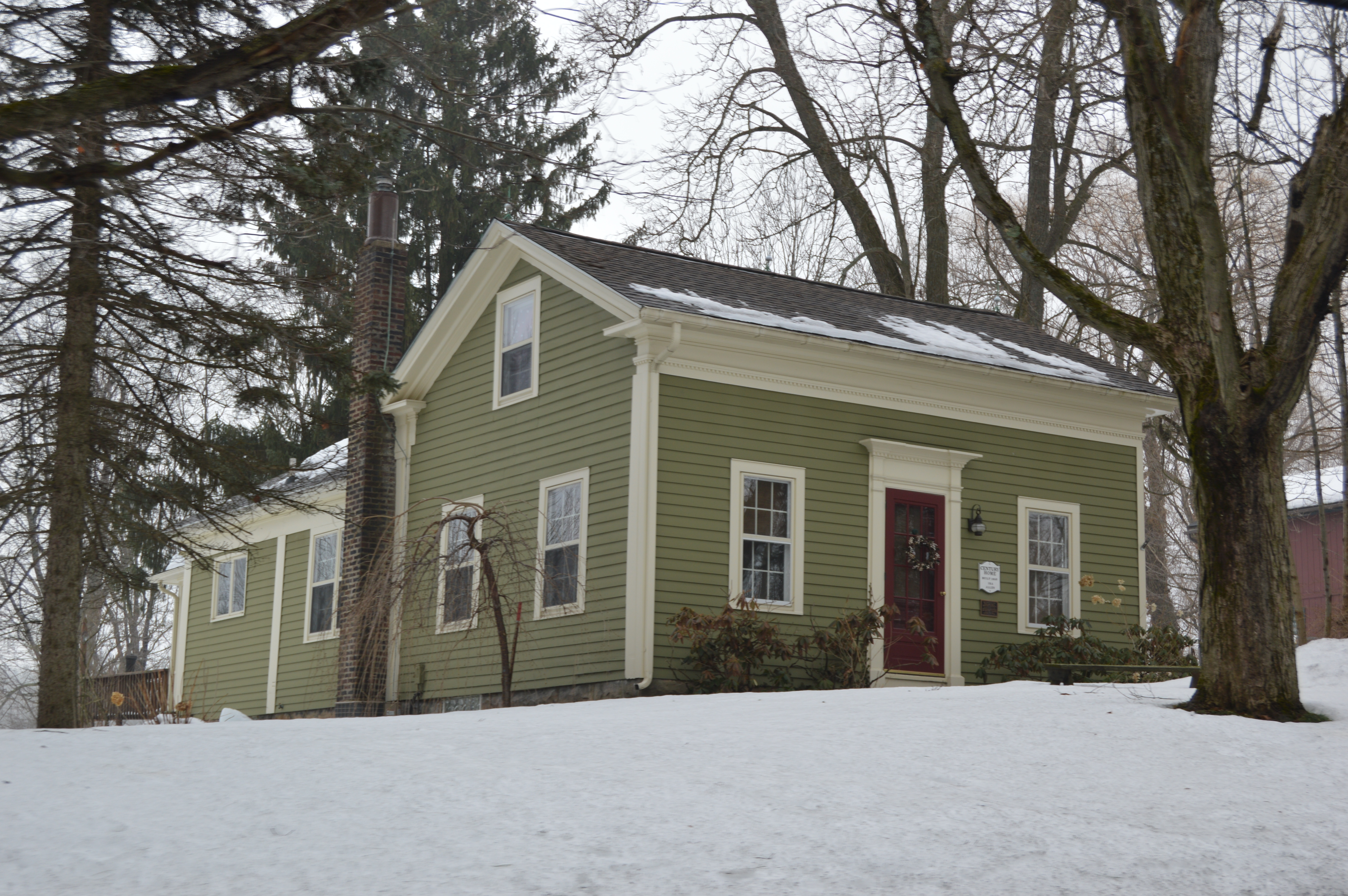 House on the eastern side of Fowlers Mill Road north of the U.S. Route 322 intersection in Munson Township, Geauga County, Ohio, United States. This house is part of the Fowler's Mills Historic District, a historic district that is listed on the National Register of Historic Places.